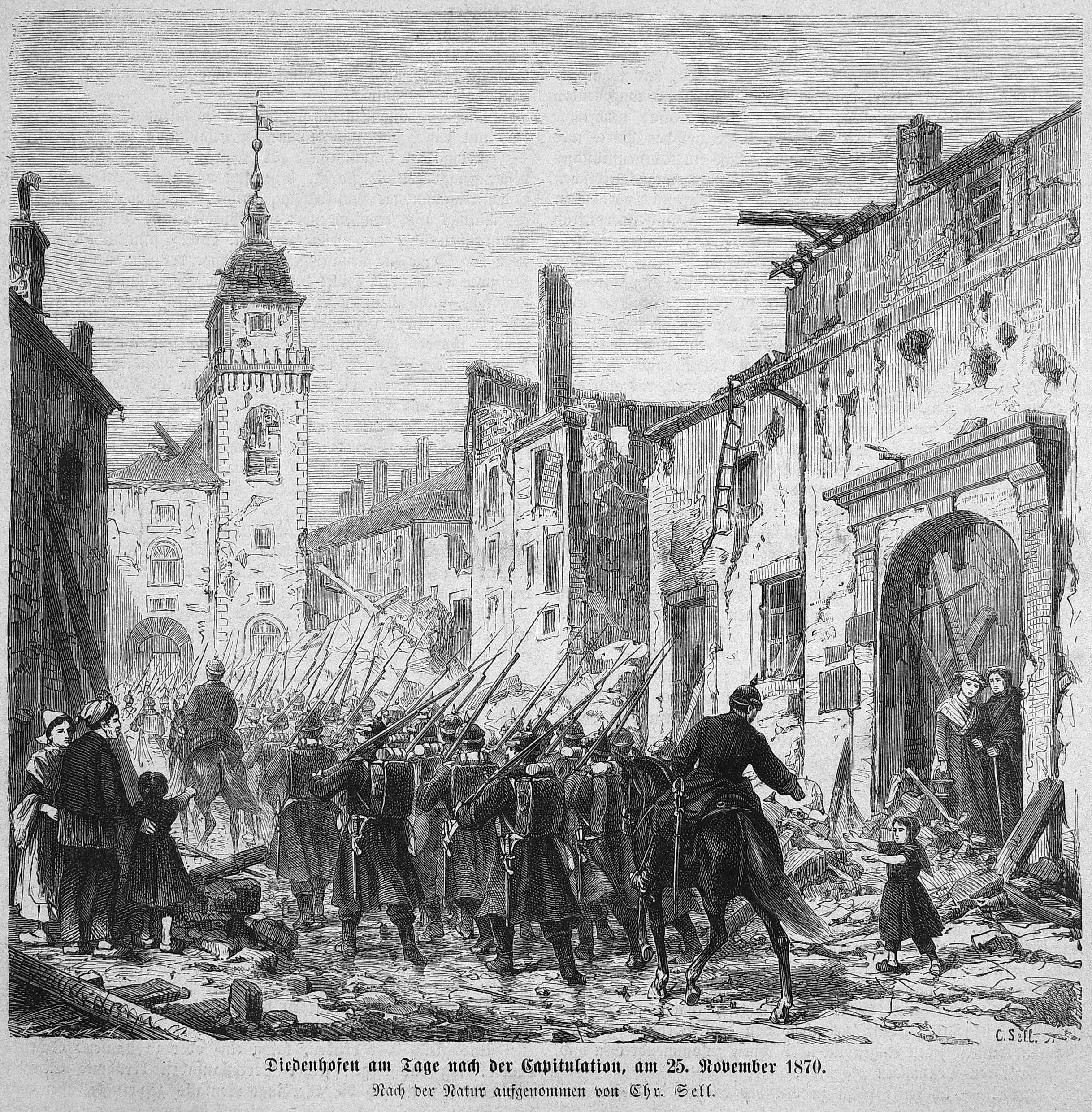 caption: "Diedenhofen am Tage nach der Capitulation am 26. November 1870.Nach der Natur aufgenommen von Chr. Sell."